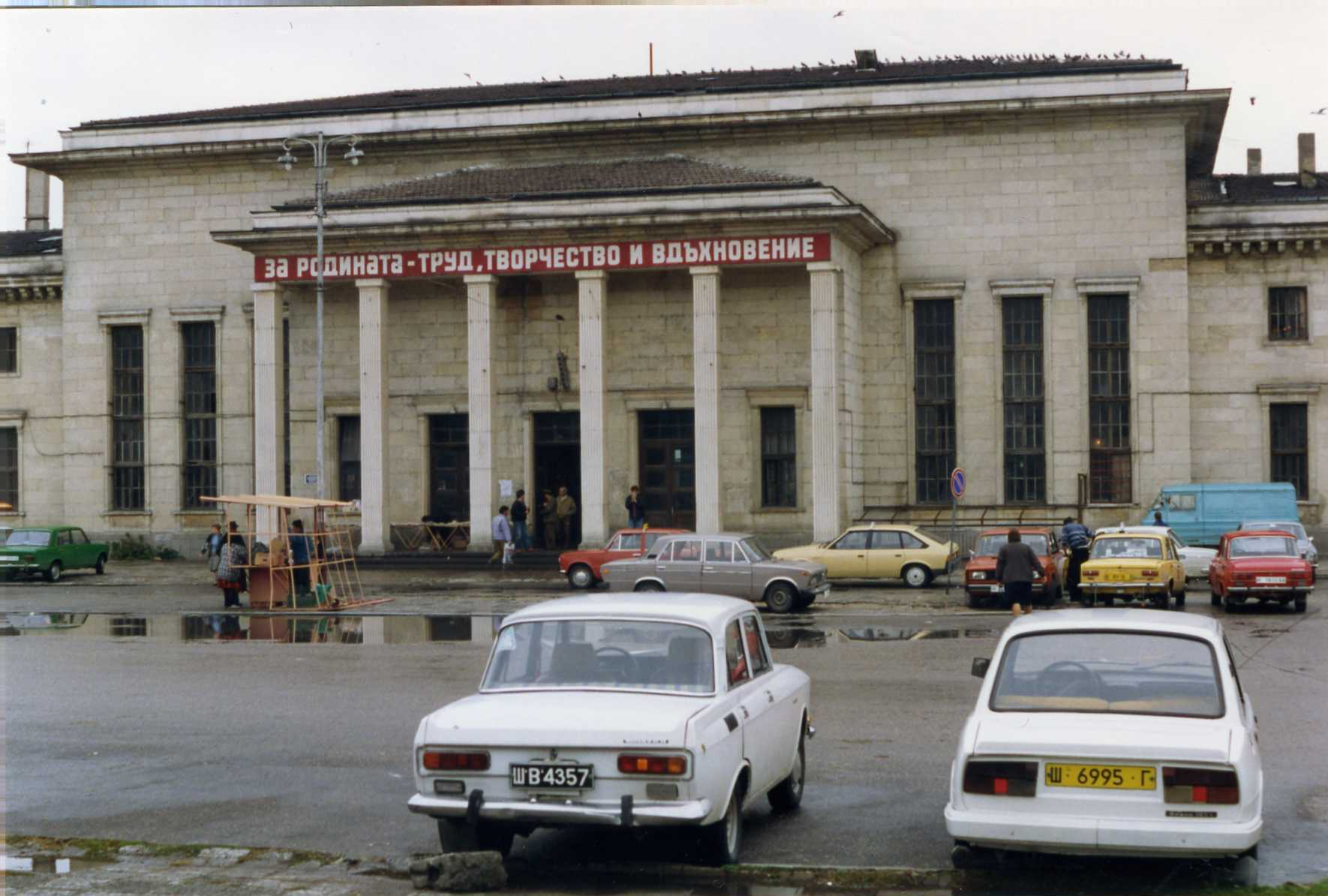 Some rare slogans (see below) adorn the building which is surrounded by a wonderful array of eastern european autos. The Ш registration mark for Shumen has become obsolete as now only shared cyrillic - roman letters are allowed. The new Bulgarian registration mark for Shumen is H (i.e. N) . Other cyrillic litters, like the suffix г on the Skoda are also outlawed, along with black and yellow plates. History of Skoda in Bulgarian here The building is the railways station of Shumen and the slogan on it says "For the Fatherland - labor, creativity and inspiration"